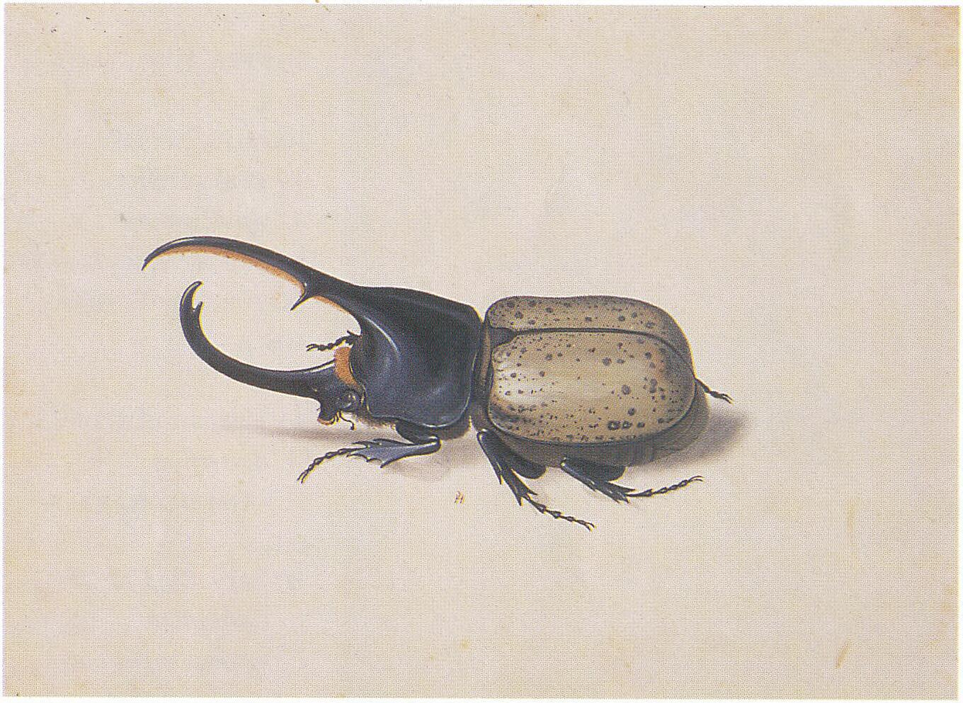 Hercules Beetle. watercolor and gouache on paper. Height: 16 cm (6.2 ″); Width: 20.7 cm (8.1 ″) dimensions QS:P2048,16U174728;P2049,20.7U174728. Copenhagen, Statens Museum for Kunst (inv. 14I).